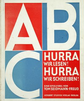 Tom Seidmann-Freud (1892-1930) was a female author and illustrator of children´s books